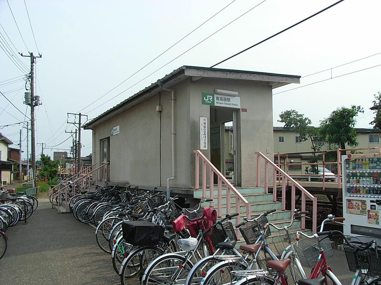 Minami-Takada Station on the Echigo Tokimeki Railway Myoko Haneuma Line in Minamitakadamachi, Joetsu City, Niigata Prefecture, Japan (photo taken in the JR East era)